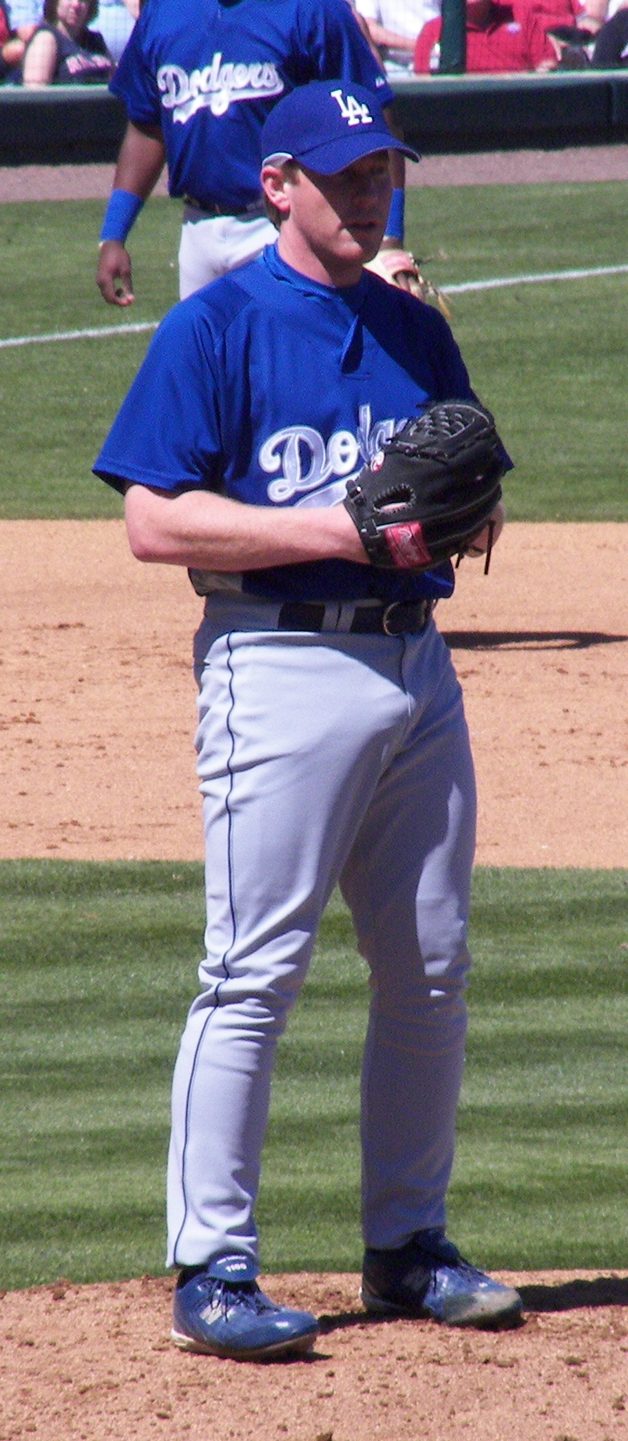 Los Angeles Dodgers pitcher Randy Wolf pitching during a Dodgers/Boston Red Sox spring training game at City of Palms Park in Fort Myers, Florida.